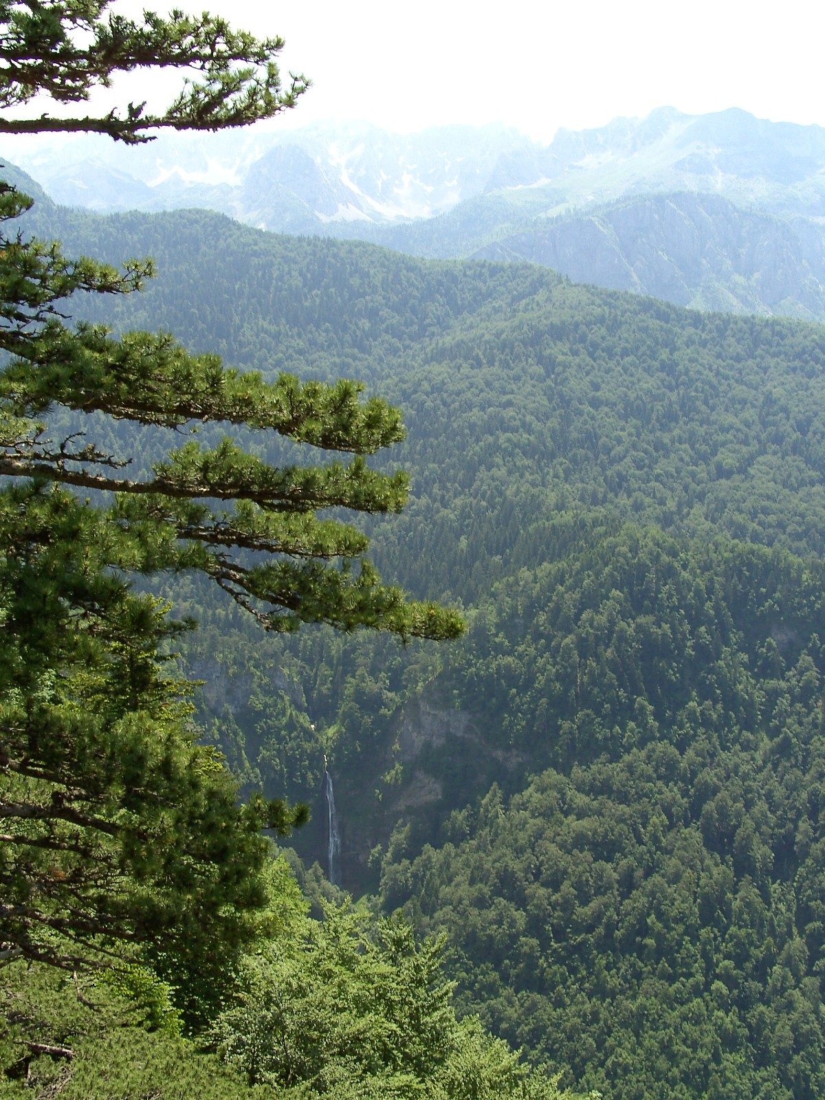 National park Sutjeska, Bosnia and Herzegovina Digital StillCamera